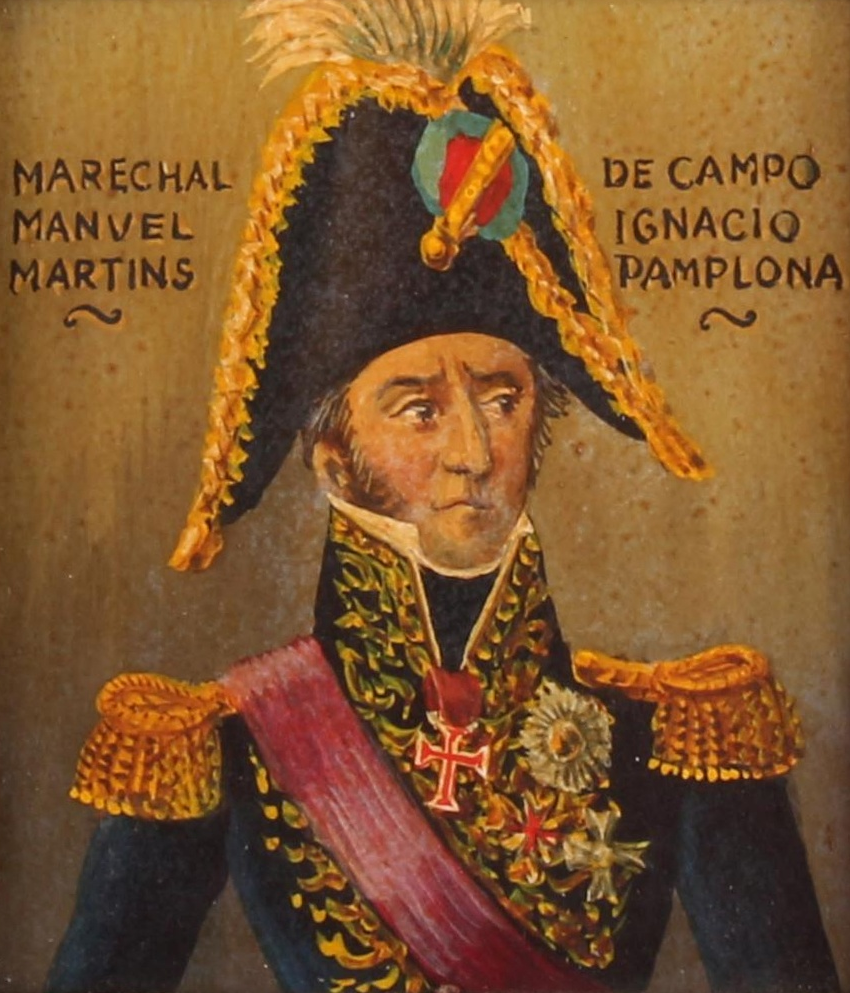 Portrait of field-marshal Manuel Inácio Martins Pamplona Corte Real, later 1st Count of Subserra